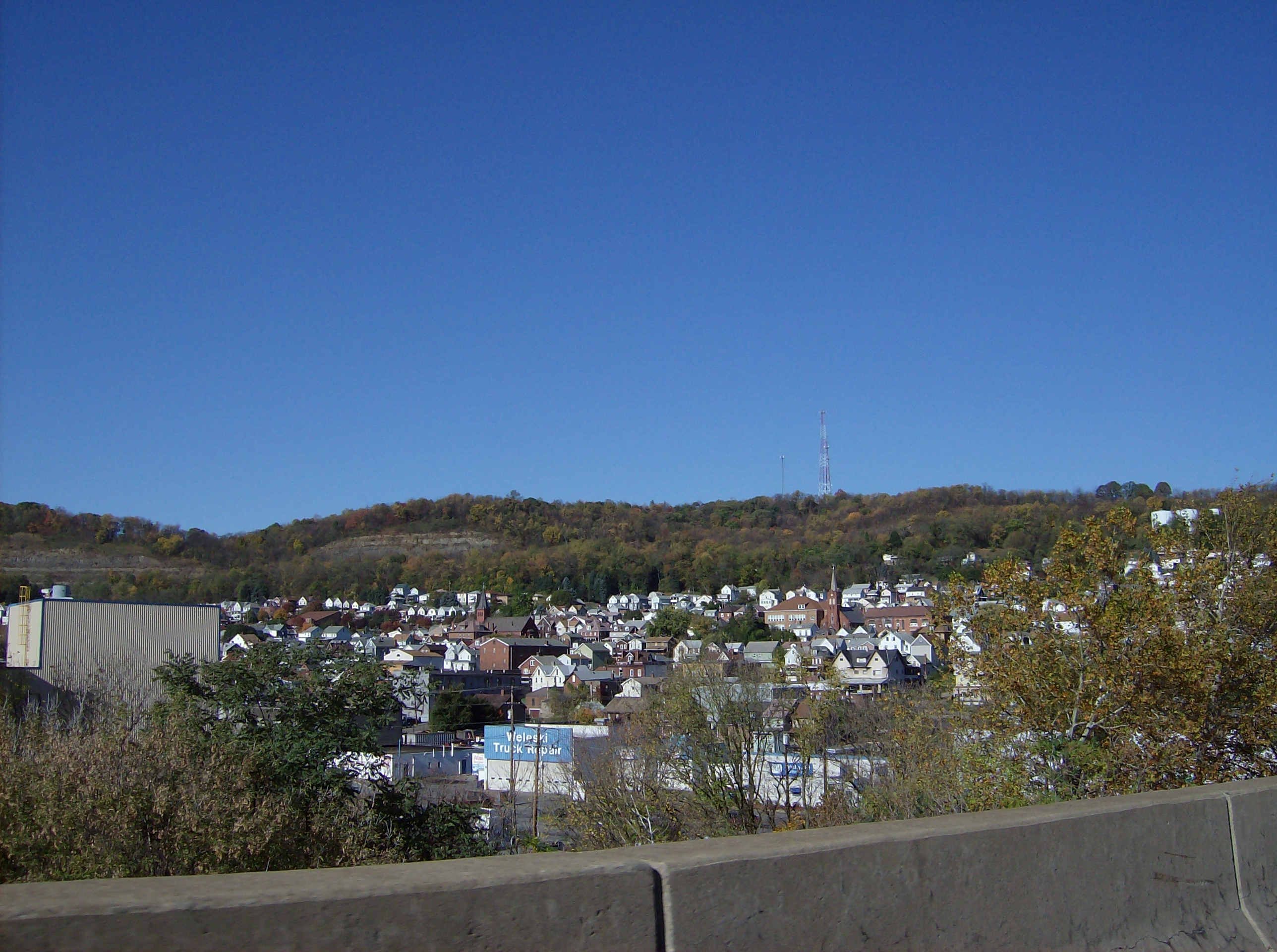 View of the borough of Tarentum, Pennsylvania, United States. Picture taken from the Route 366 bridge over the Allegheny River between Allegheny and Westmoreland Counties.